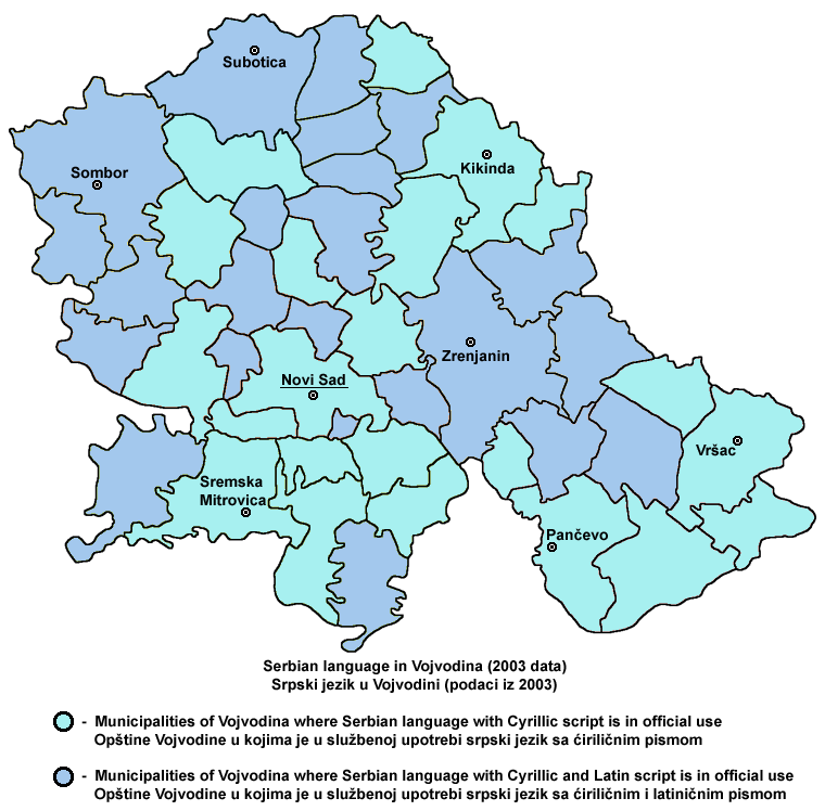 Official usage of Serbian language and its scripts in Vojvodina (2003 data).